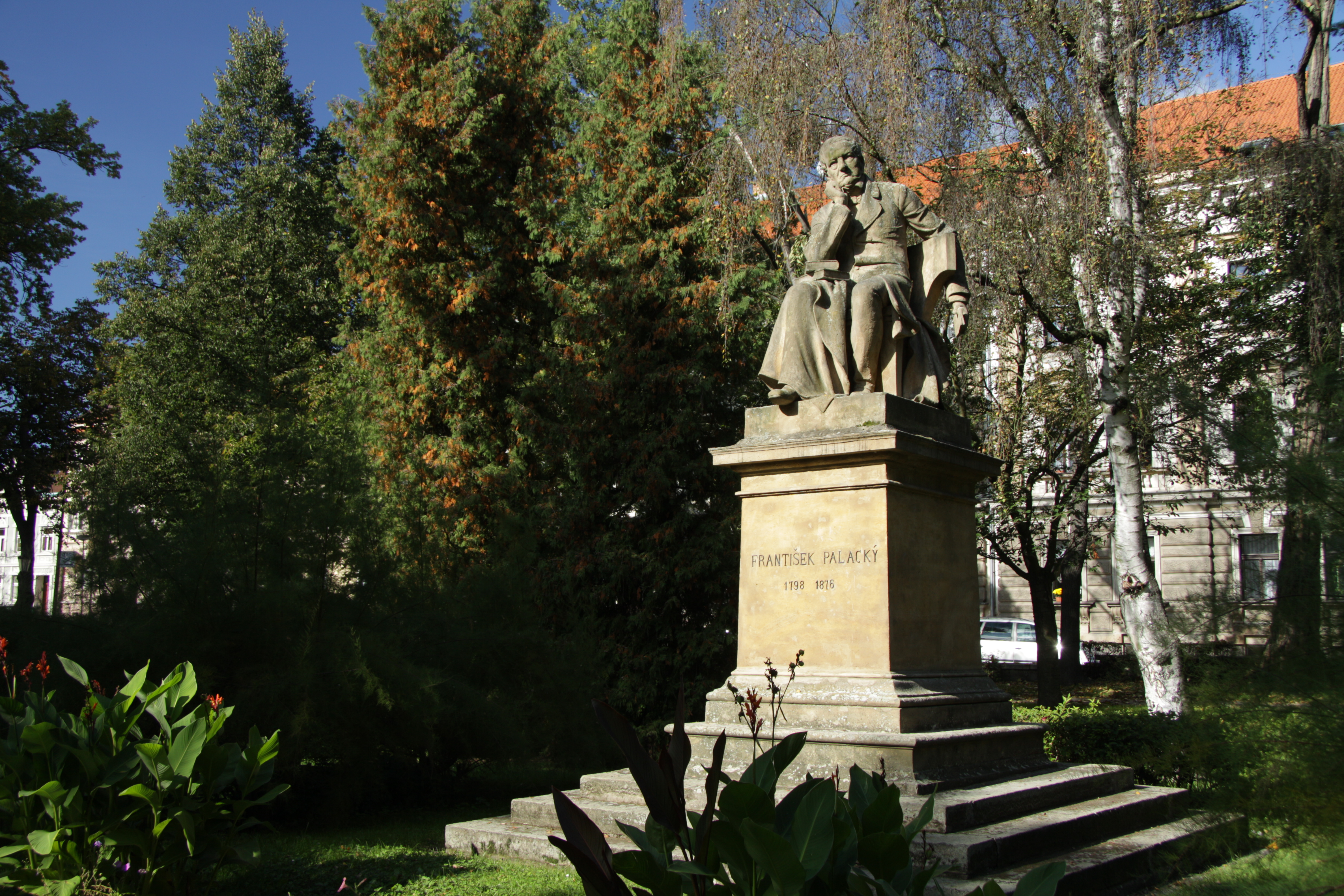 Monument to Adolf Heyduk in Palackého sady, Písek, Písek District, Czech Republic